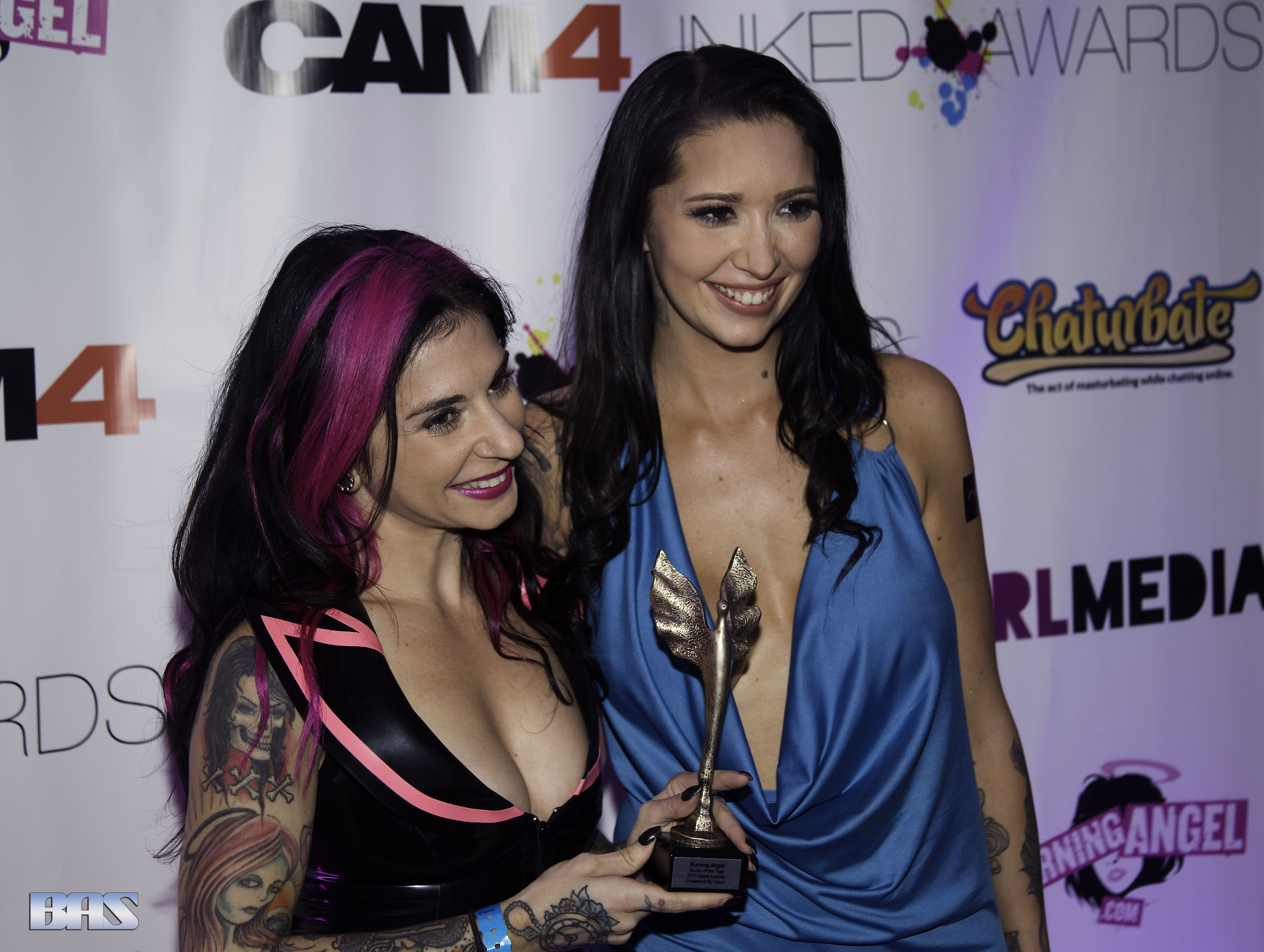 Joanna Angel and Callie Nicole at the Inked Awards on November 14, 2015